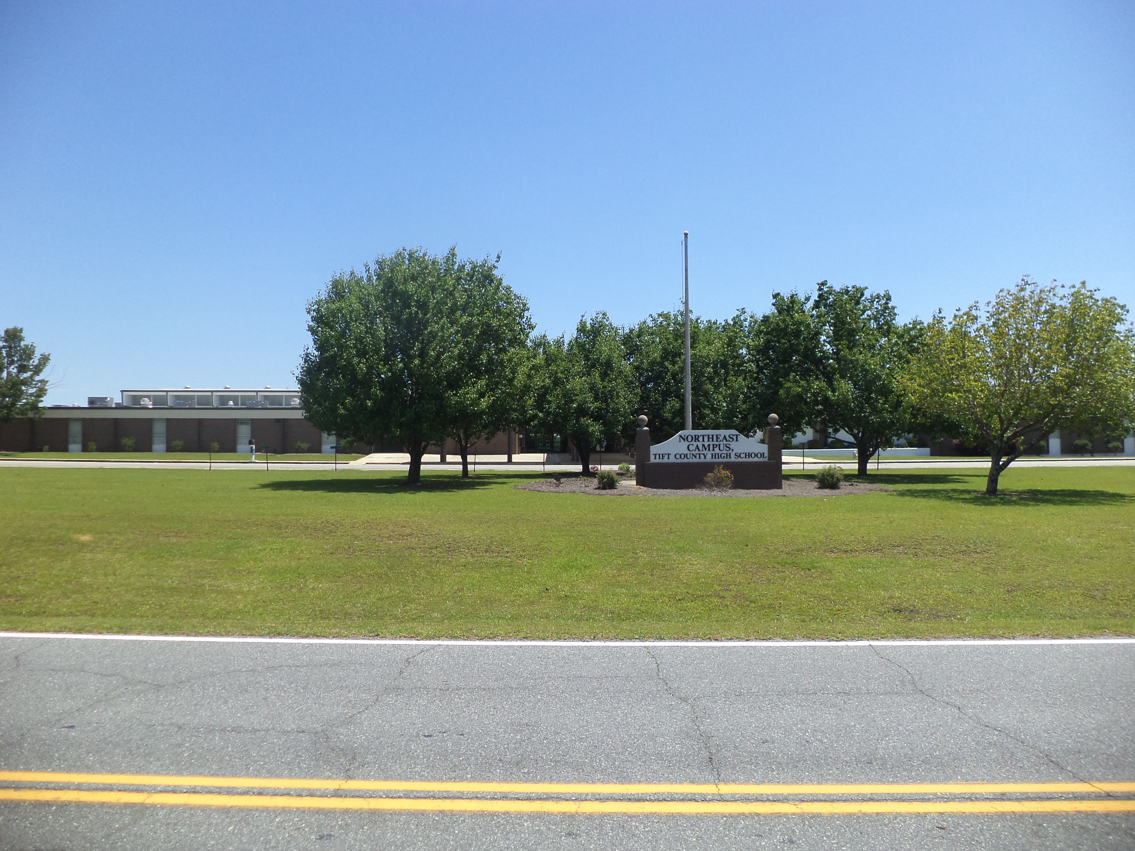 Northeast Campus, Tift County High School, 3021 Fulwood Road, Tifton, Tift County, Georgia